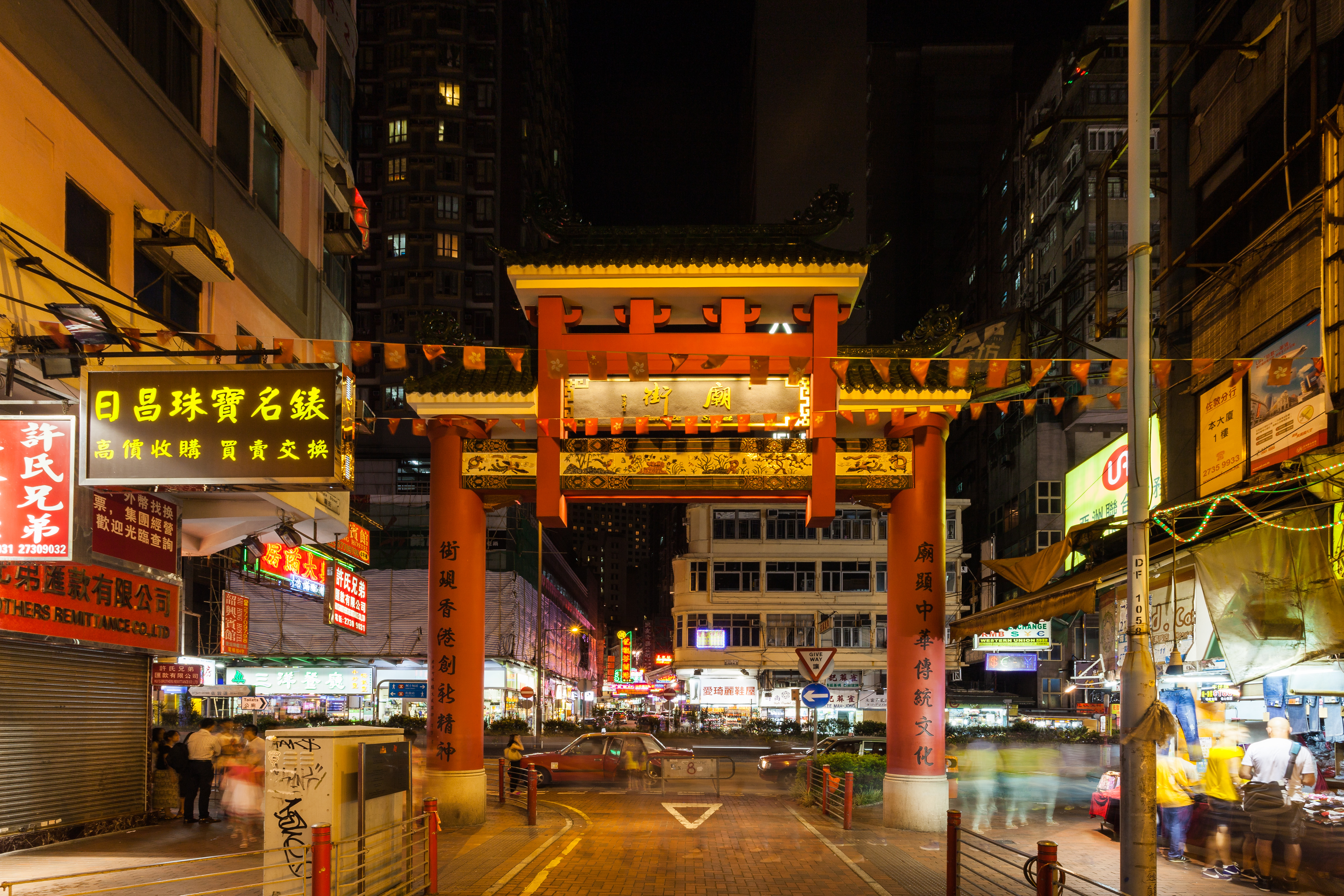 Market in Temple St., Hong Kong